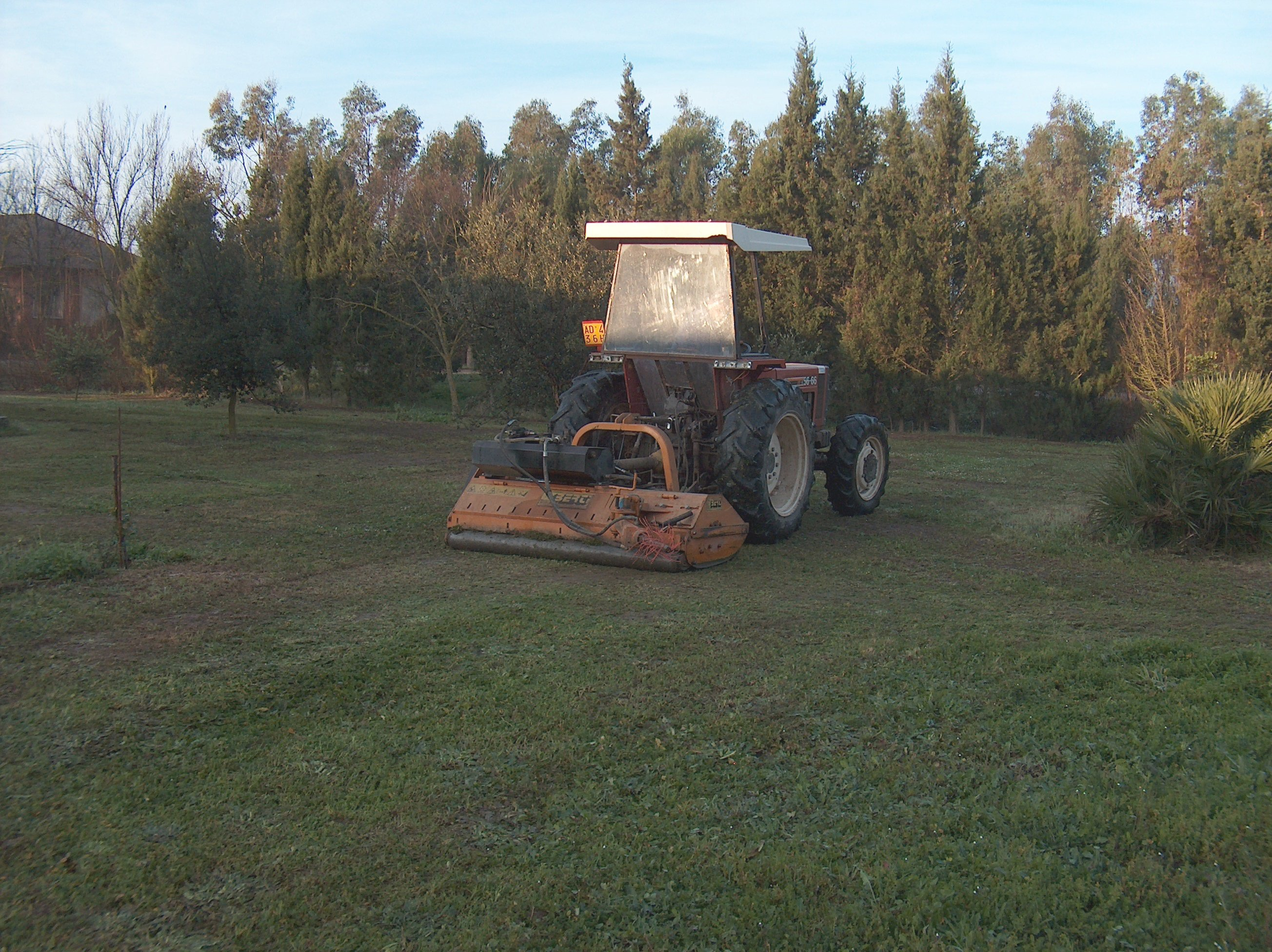 Shredder machine. – Professional Institute of Agriculture and Environment "Cettolini" of Cagliari (Sardinia, Italy) – Associated School of Villacidro (Sardinia, Italy)